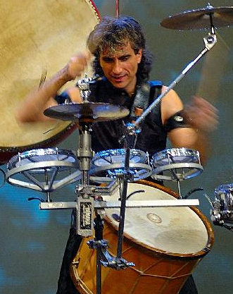 Stoyan Yankoulov